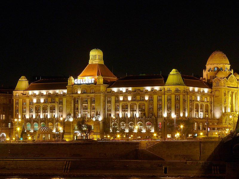 The Hotel Gellért in Budapest